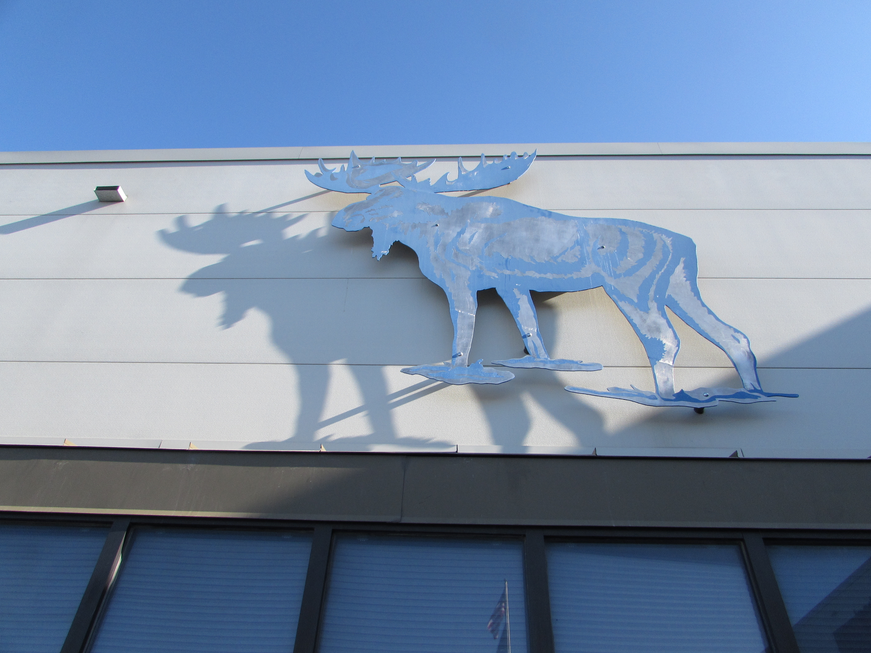 Photo if the iconic blue moose outside the entrance to palmer highschool.